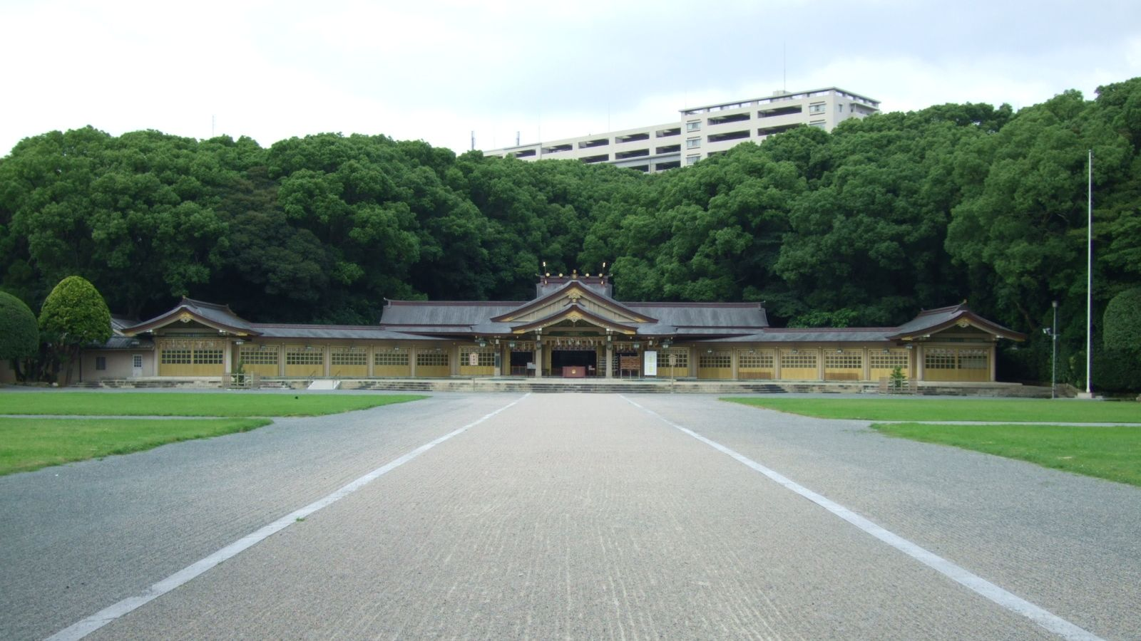 Fukuoka Prefecture Gokoku Shrine.